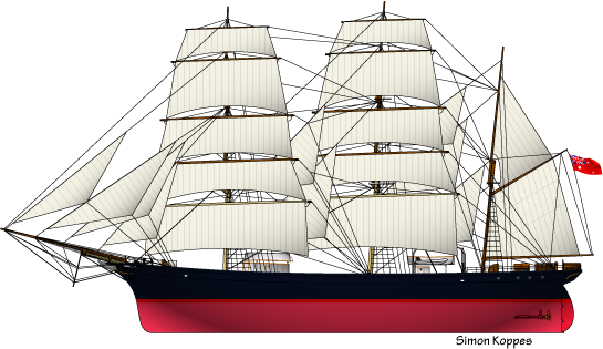 Drawing of the Australian sailing ship James Craig